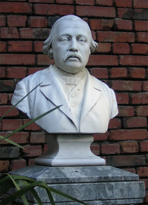 Sculptural portrait of Gustav Radde (1831-1903), German and Russian botanist and geographer. Georgia National Museum, Tbilissi